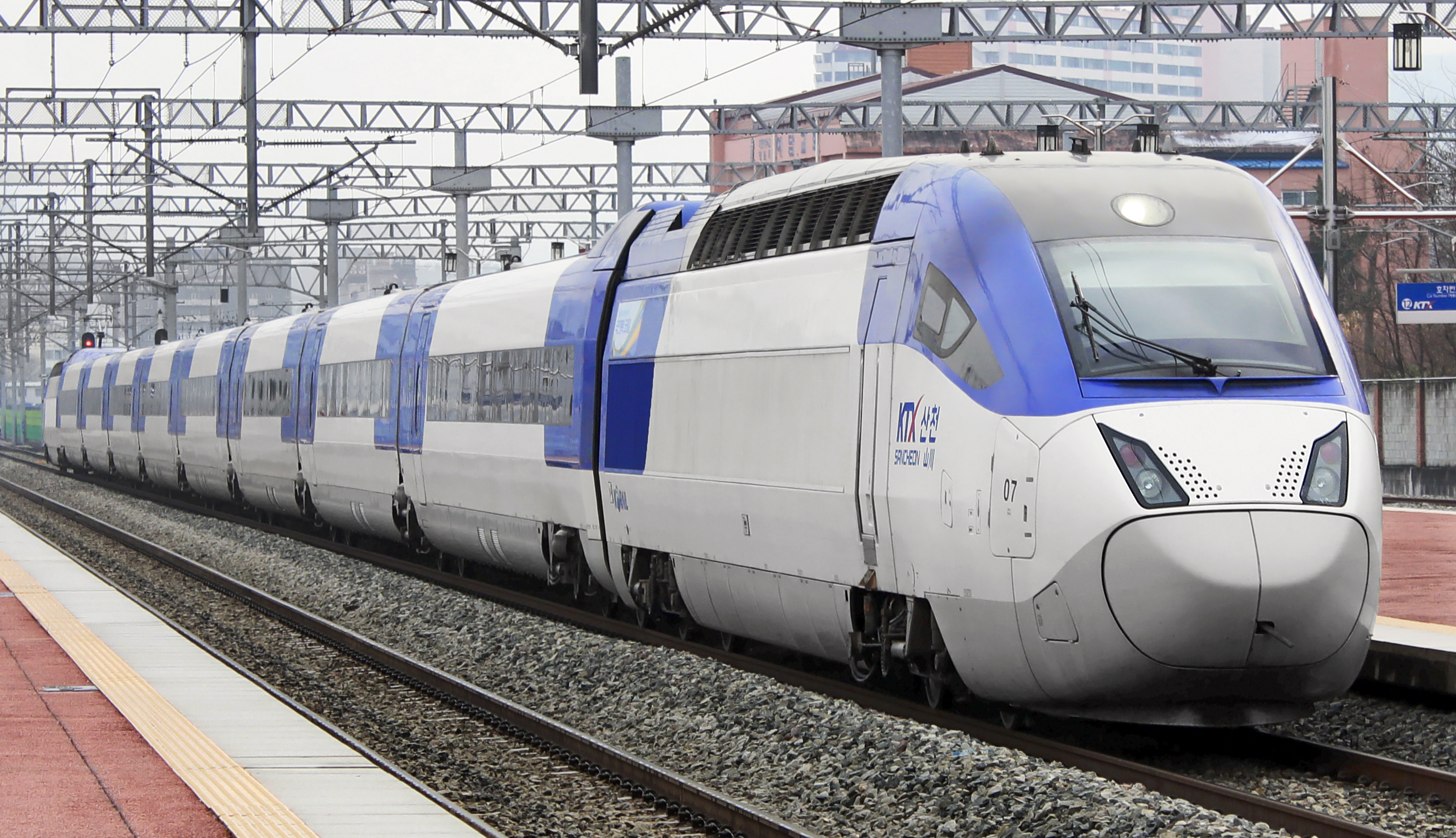 KTX-Sancheon #07